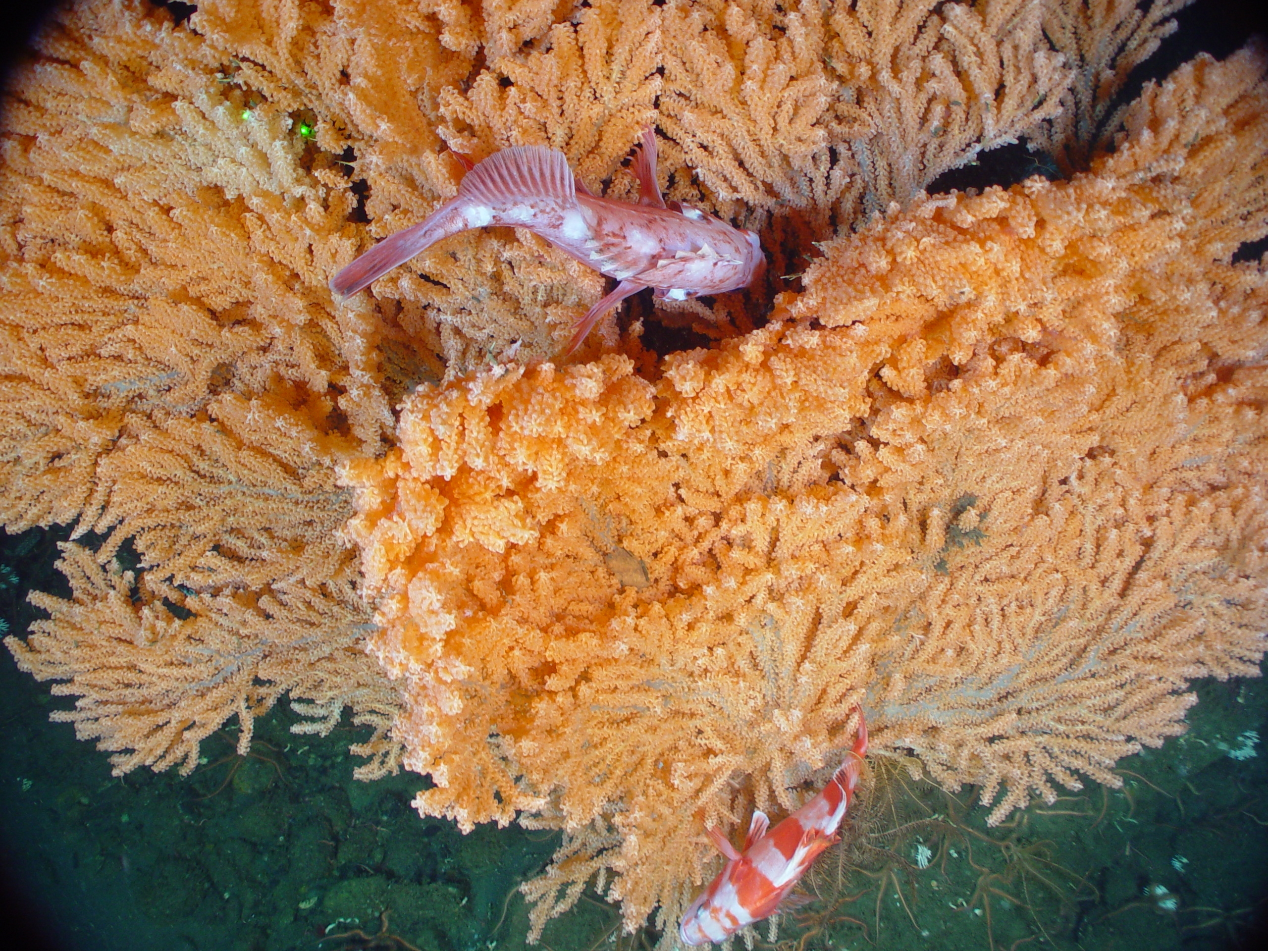 Rockfish nestled in the branches of a gorgonian soft coral, tentatively identified as a Primnoa sp. Washington, Olympic Coast NMS.